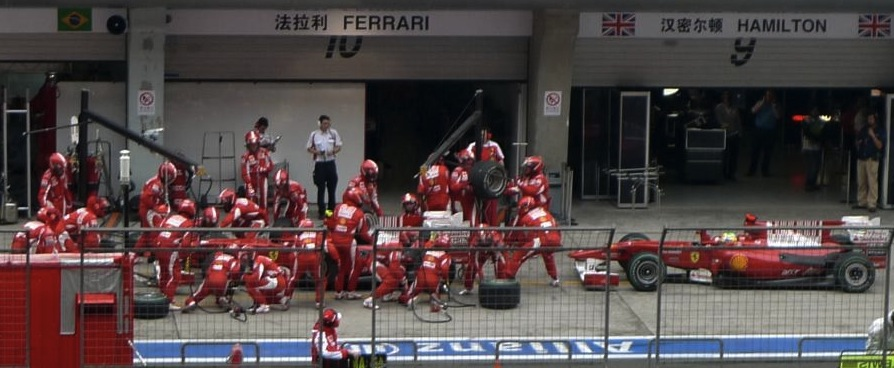 Queuing Ferrari at the Shanghai F1